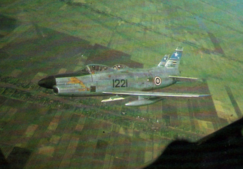 Royal Thai Air Force North American F-86L Sabre fighters fly formation with a U.S. Air Force TF-102A Delta Dagger from the 509th Fighter Interceptor Squadron over Thailand, in 1966.